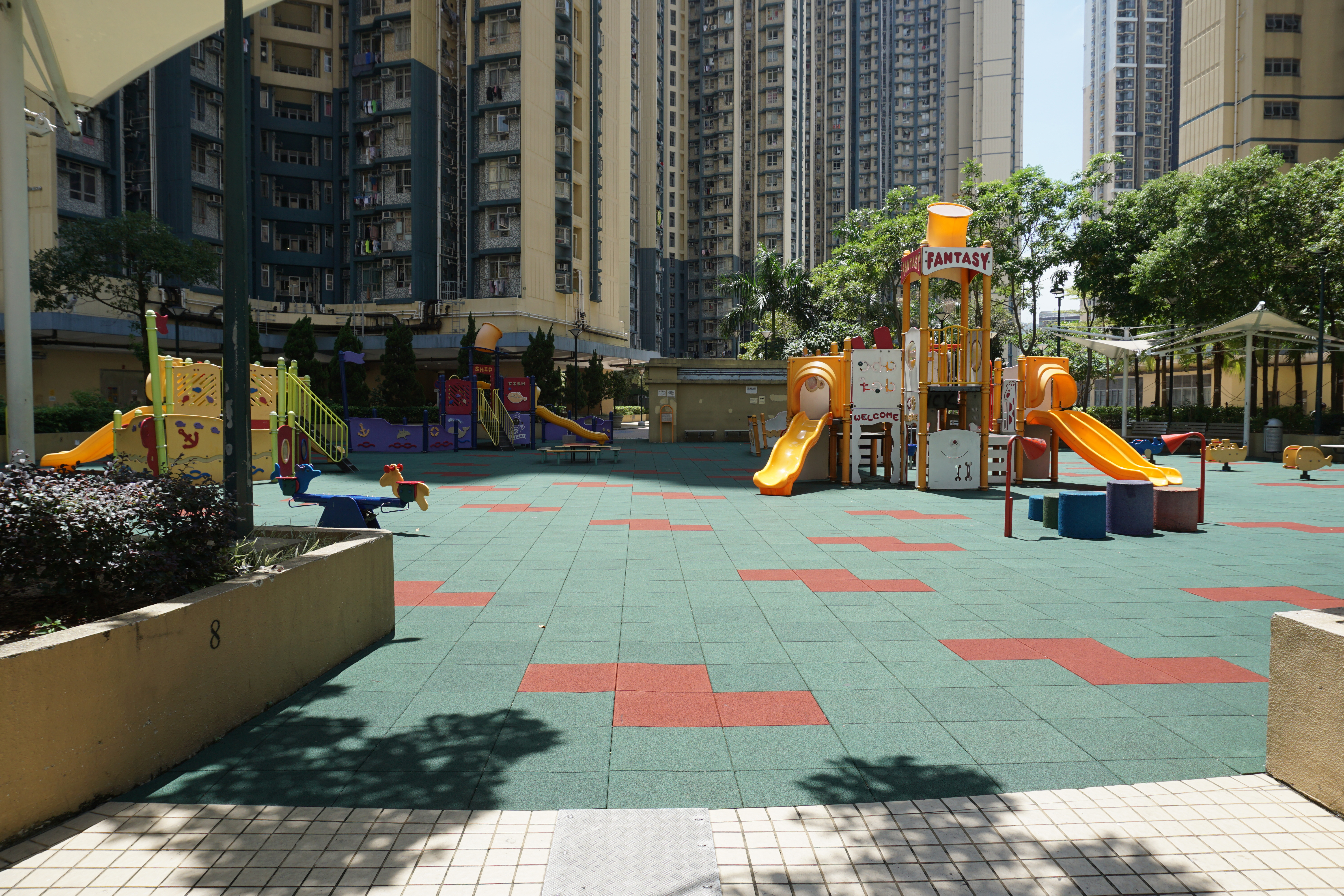 Kwai Chung Estate in Kwai Chung, Hong Kong.